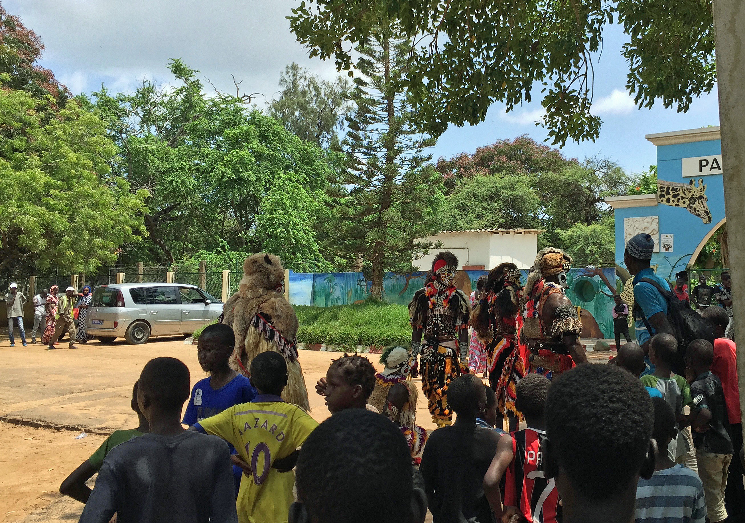 Simbeu Gaïndé au Parc zoologique de Hann (Dakar) This is an image of Cultural Fashion or Adornment from Senegal